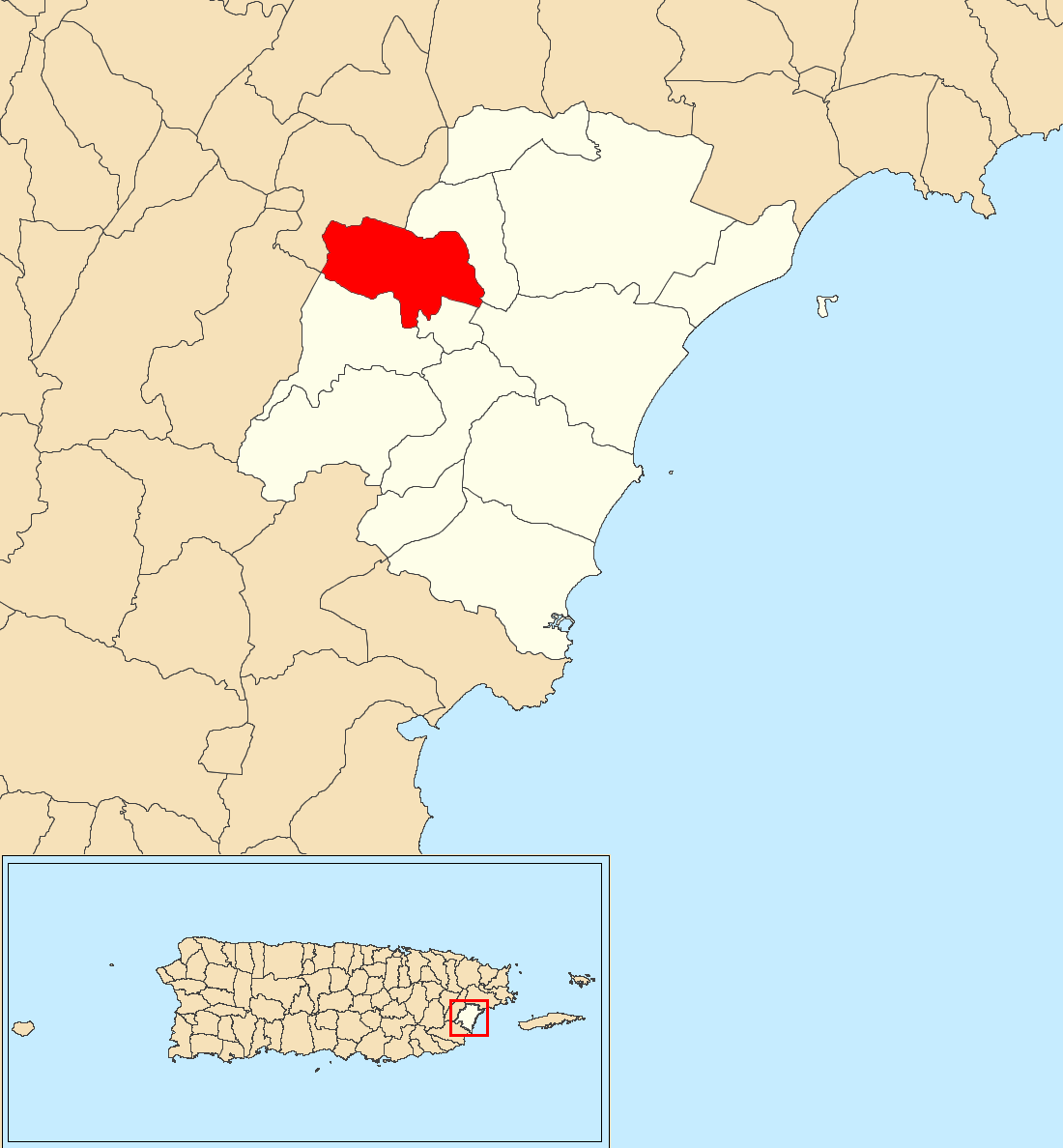 Mabú, Humacao, Puerto Rico locator map